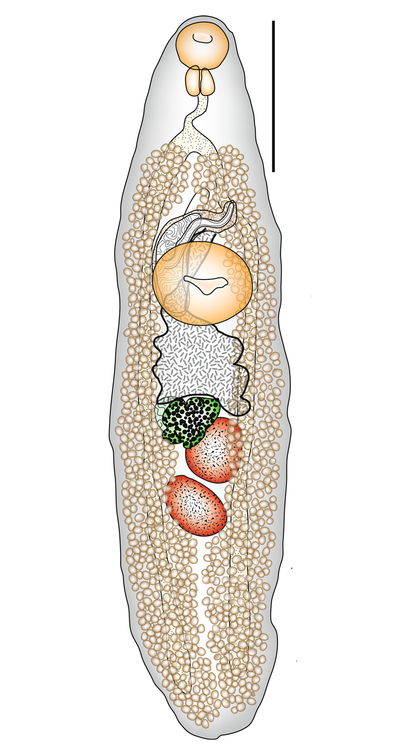 Figure 1 of the paper Hamacreadium cribbi Bray & Justine, 2016. 1, Holotype in ventral view, with uterus outline in bold; Scale-bars: 1, 1,000 µm.